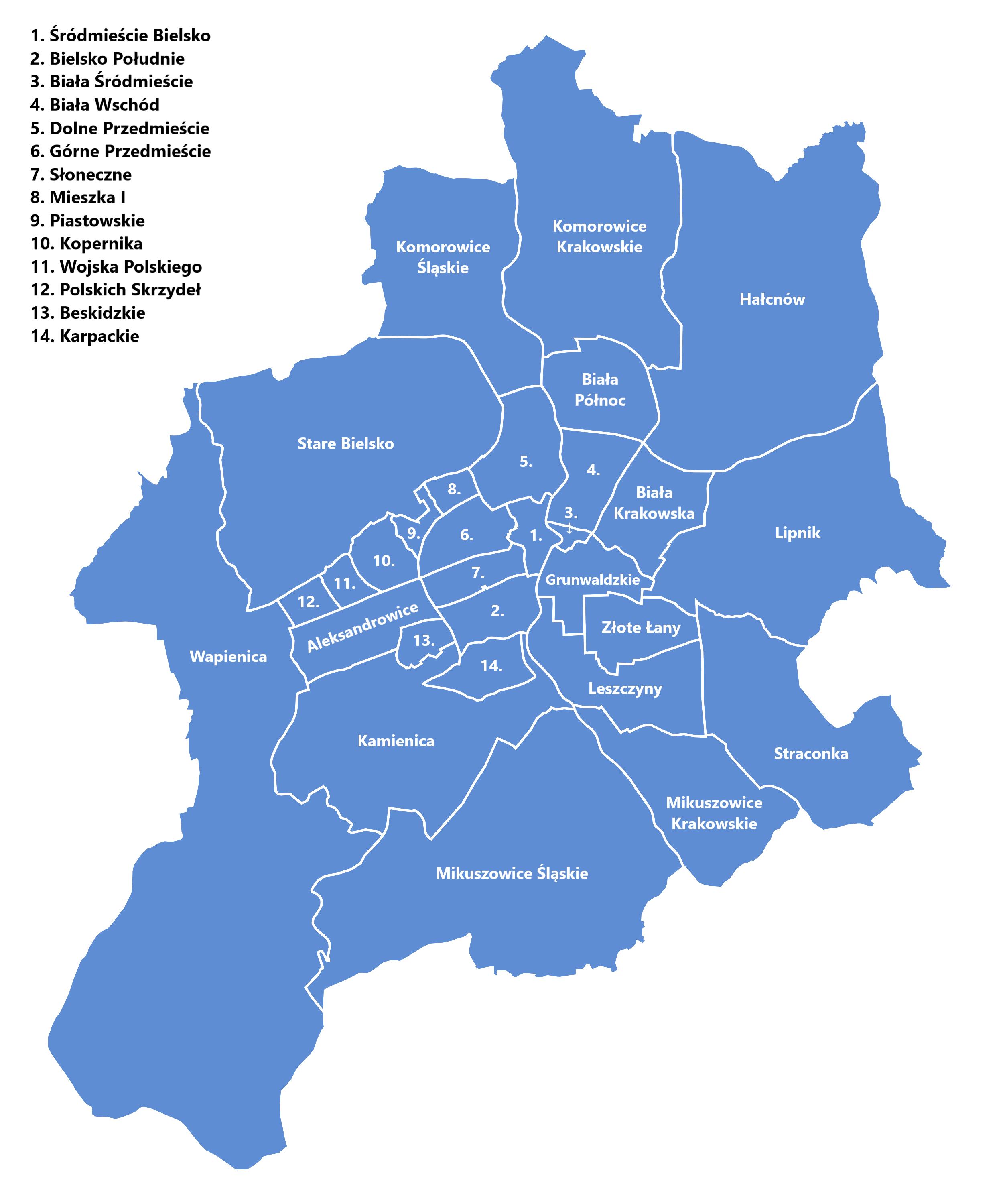 Administrative division of Bielsko-Biała.